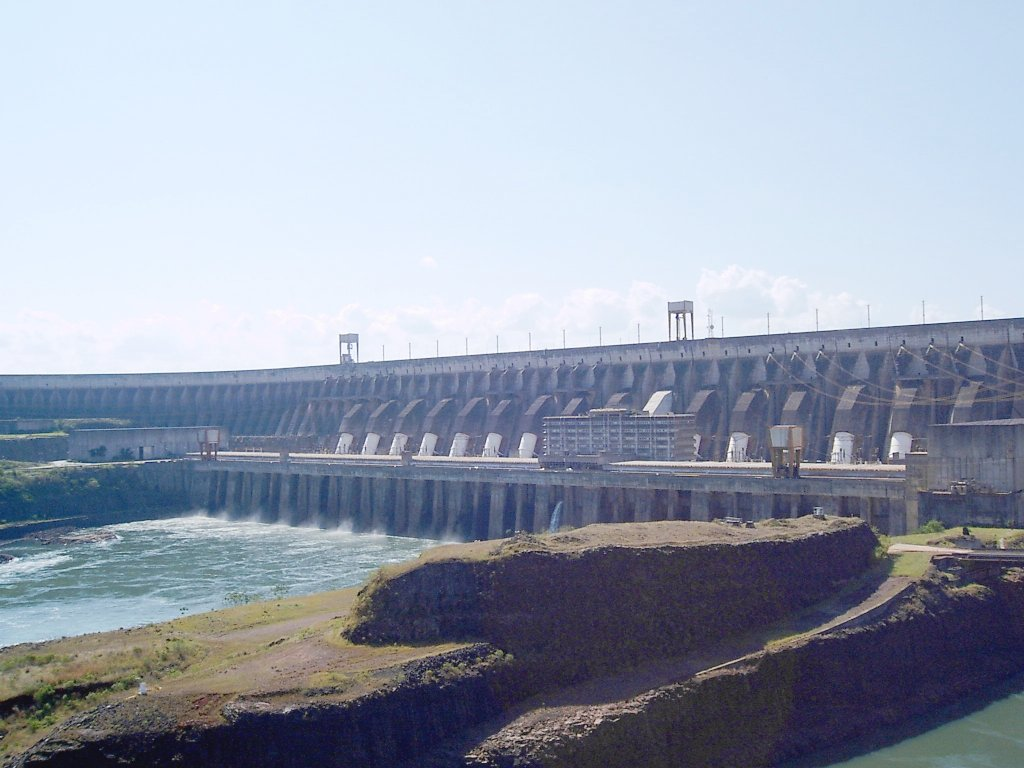 Itaipu power plant. Took this shot with a Konica Revio KD-3300 from the look-out platform. Cyc 17:29, Jan 2, 2005 (UTC)